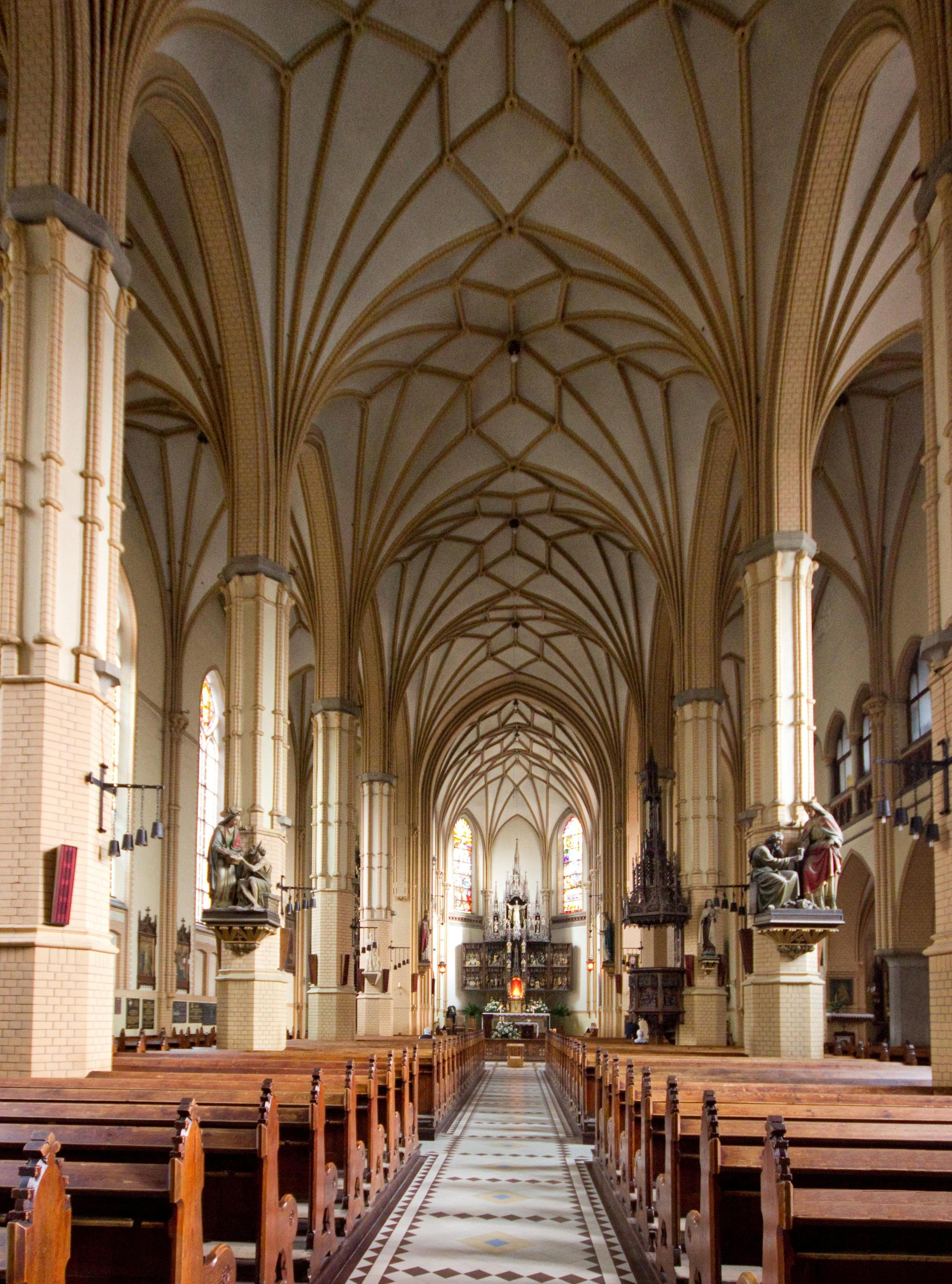 Church, Olsztyn,, Warmian-Masurian Voivodeship